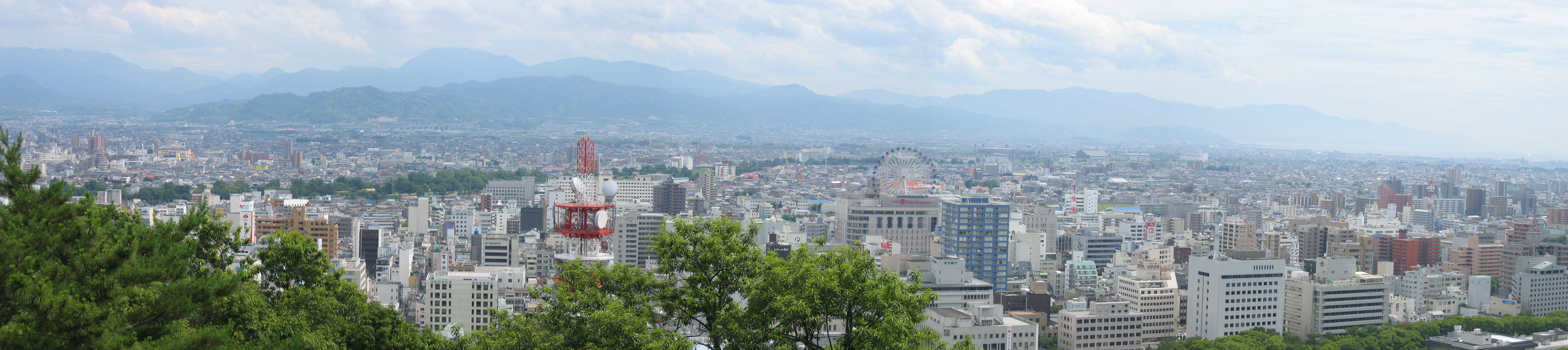 panorama of Matsuyama city from Matsuyama castle.